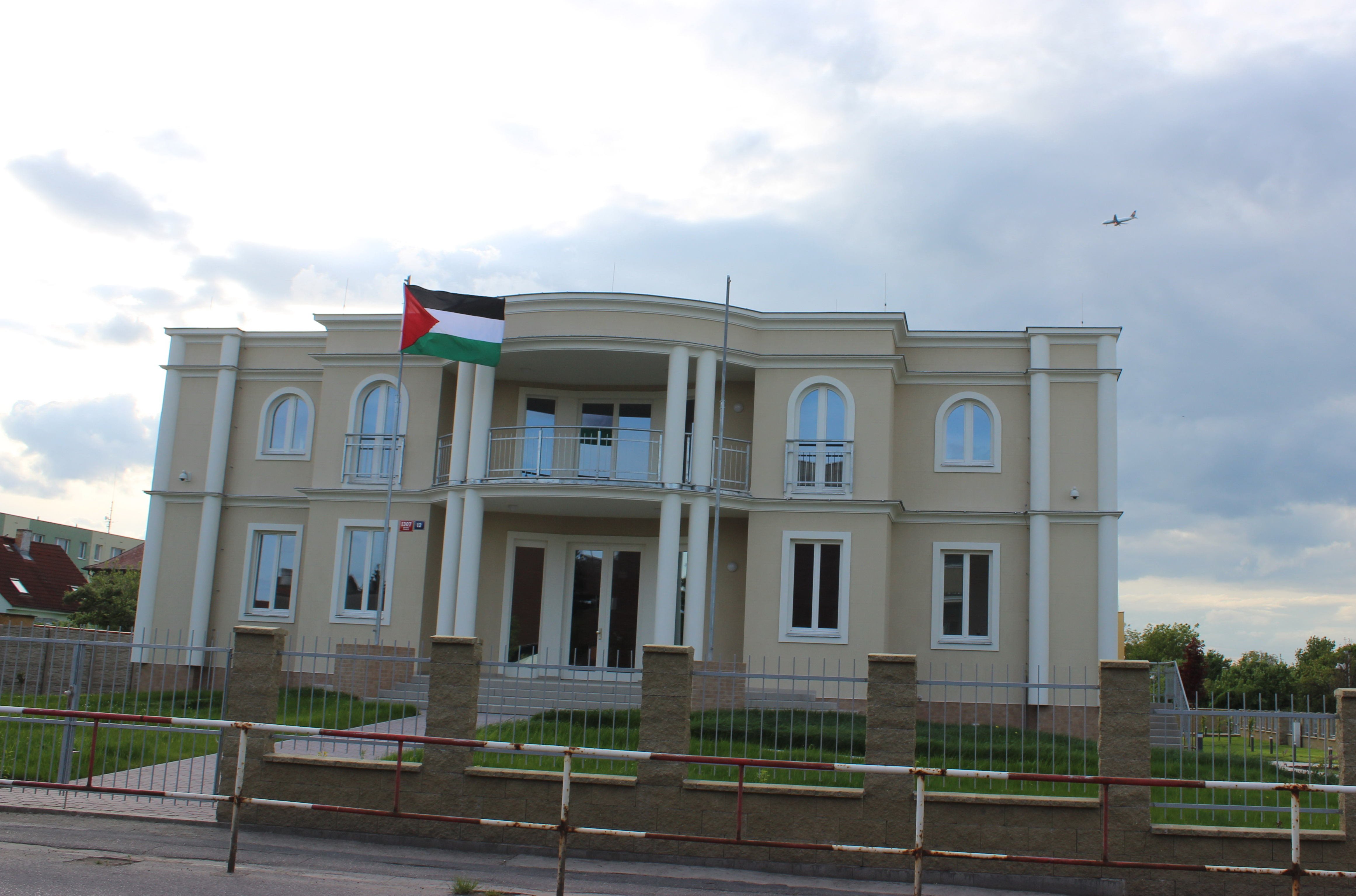 Embassy of the Palestine, in Prague, Czechia